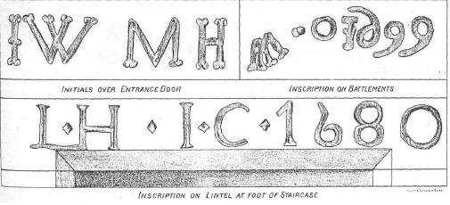 Inscriptions on the stonework of Barr Castle, Lochwinnoch, Renfrewshire, Scotland